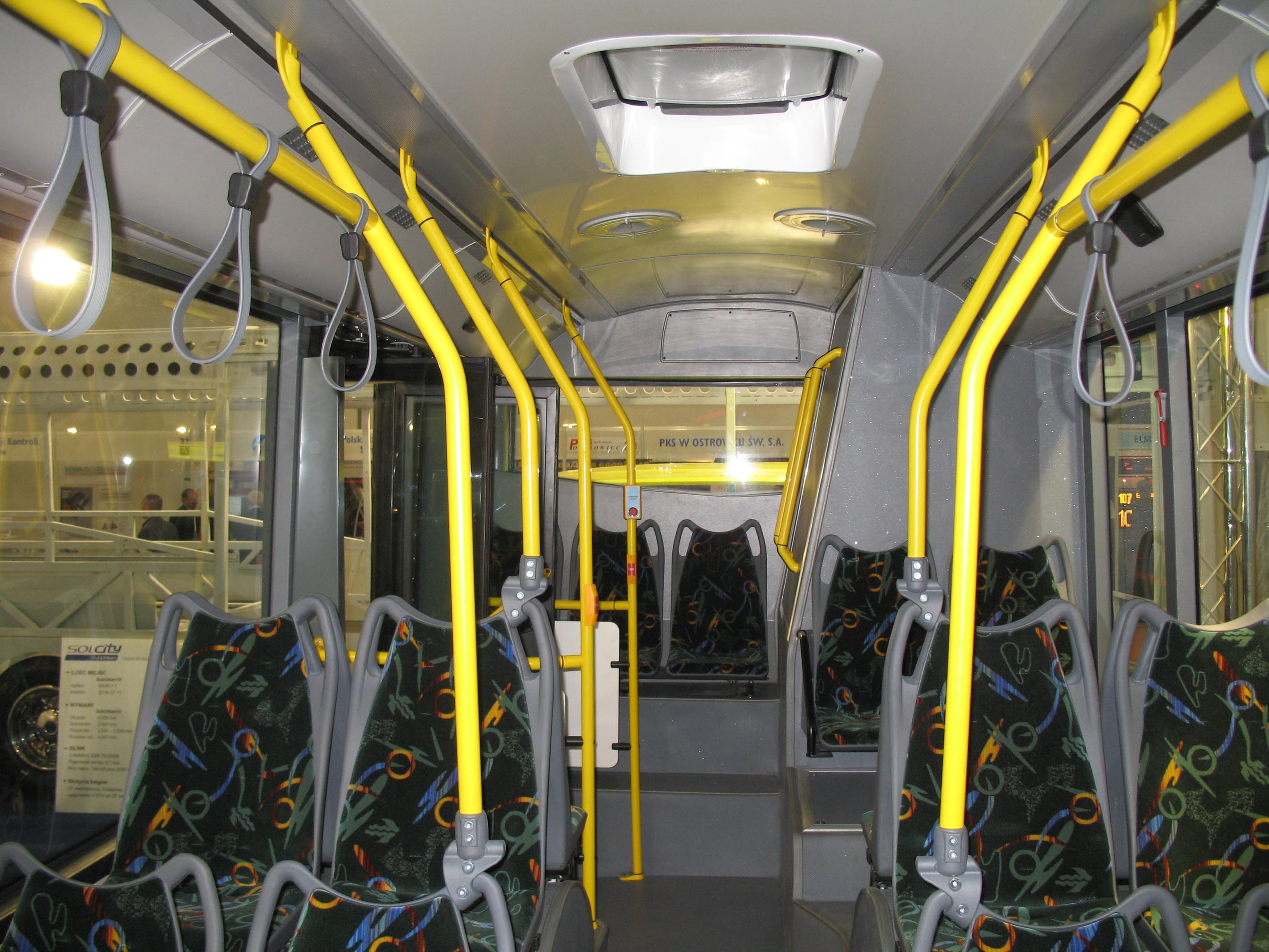 Solbus Solcity 12 city bus (SM series) interior in Kielce, Poland. Built 2009. Transexpo 2009. From XII 2009 - MPK Tarnów operator (#600).